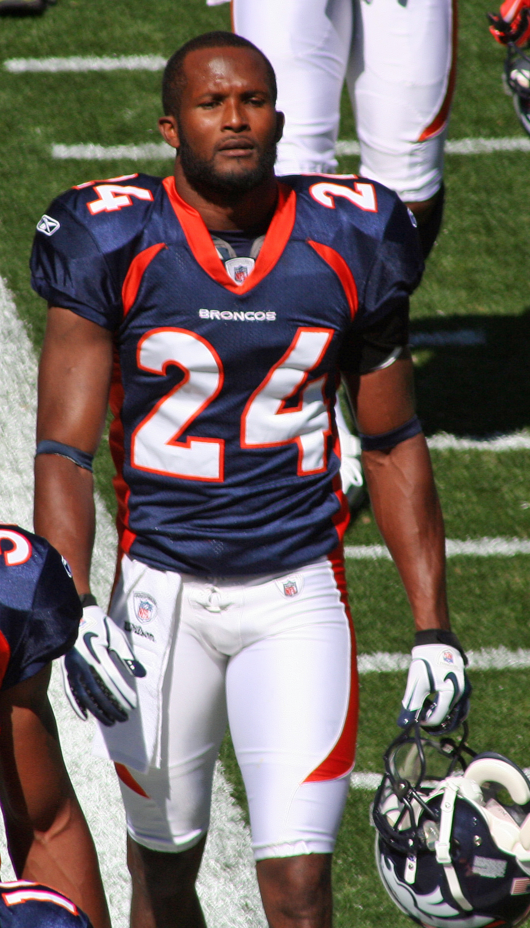 Champ Bailey, a player on the Denver Broncos American football team.